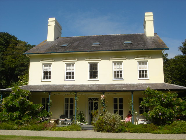 Plas Bogegroes Listed Grade 2 Georgian Manor House, now a 5* restaurant with rooms